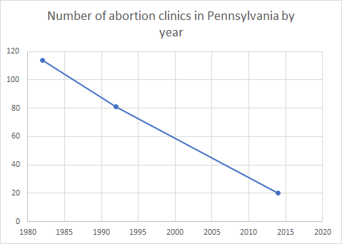 Number of abortion clinics in Pennsylvania by year. Data is from articles linked at